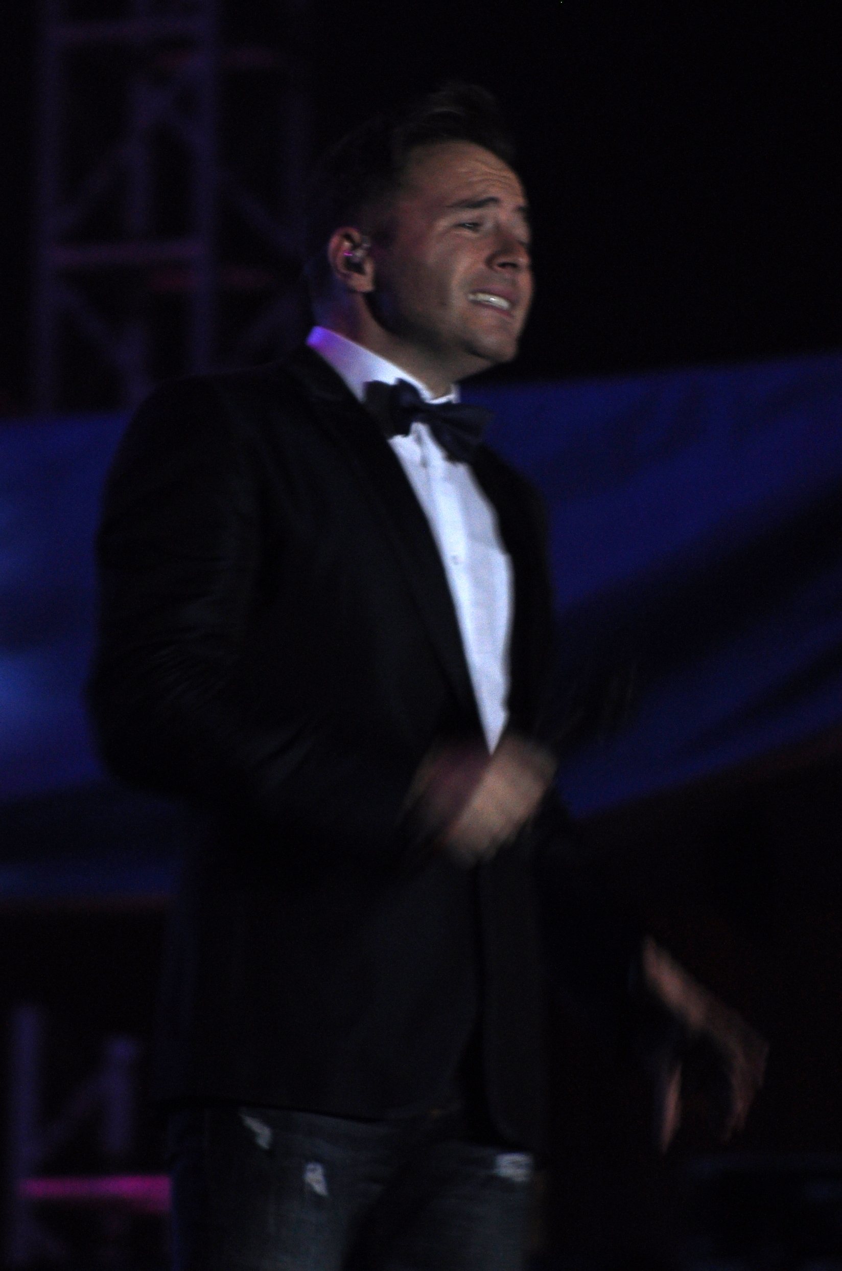 Shane Filan performing live on Gravity Tour in October 2011 in Hanoi, Vietnam